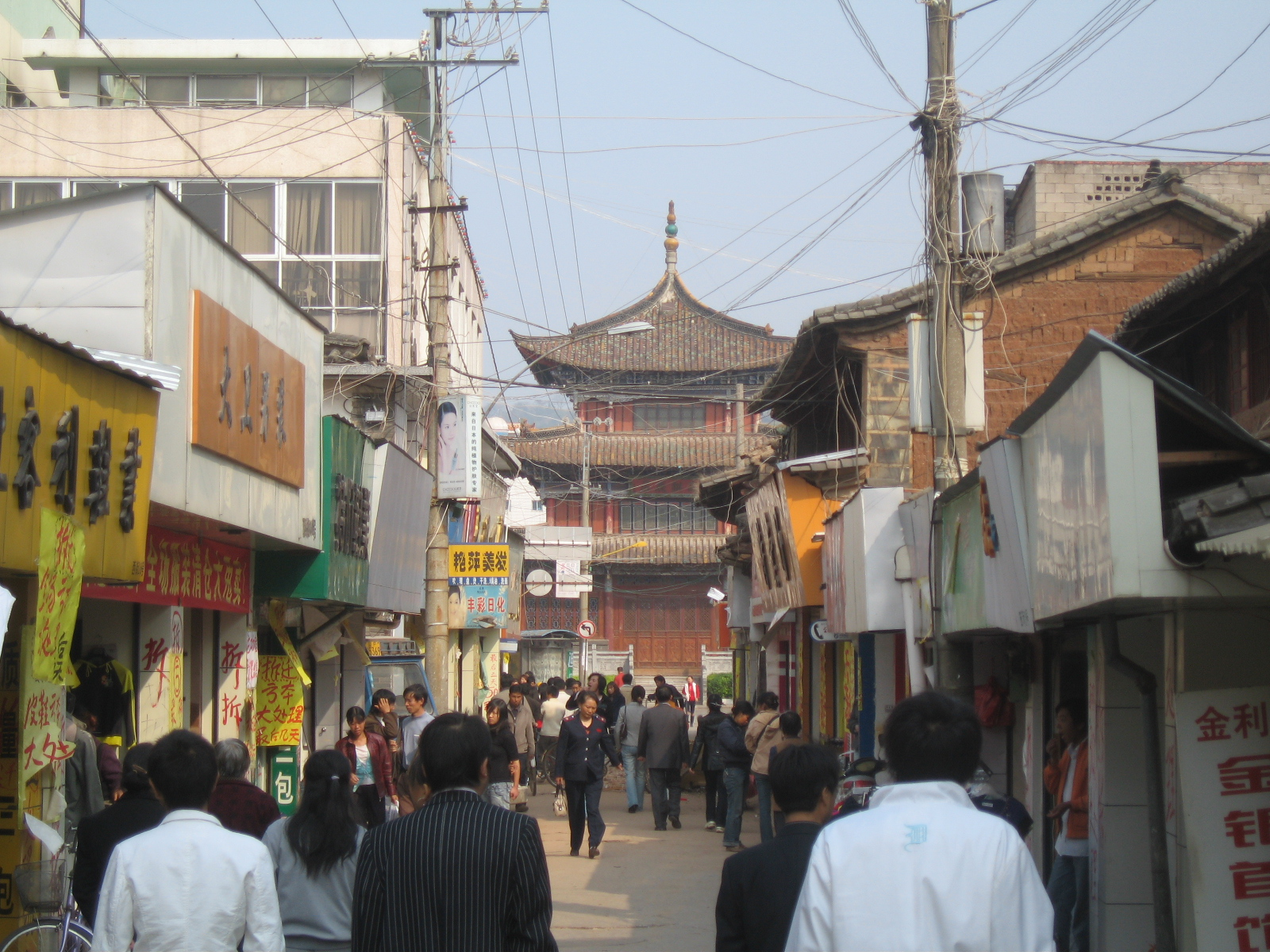 Central Tonghai